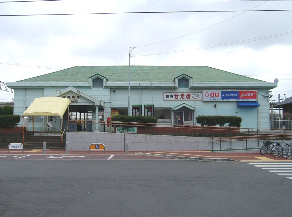 Ongagawa Station, Onga Town, Fukuoka, Japan